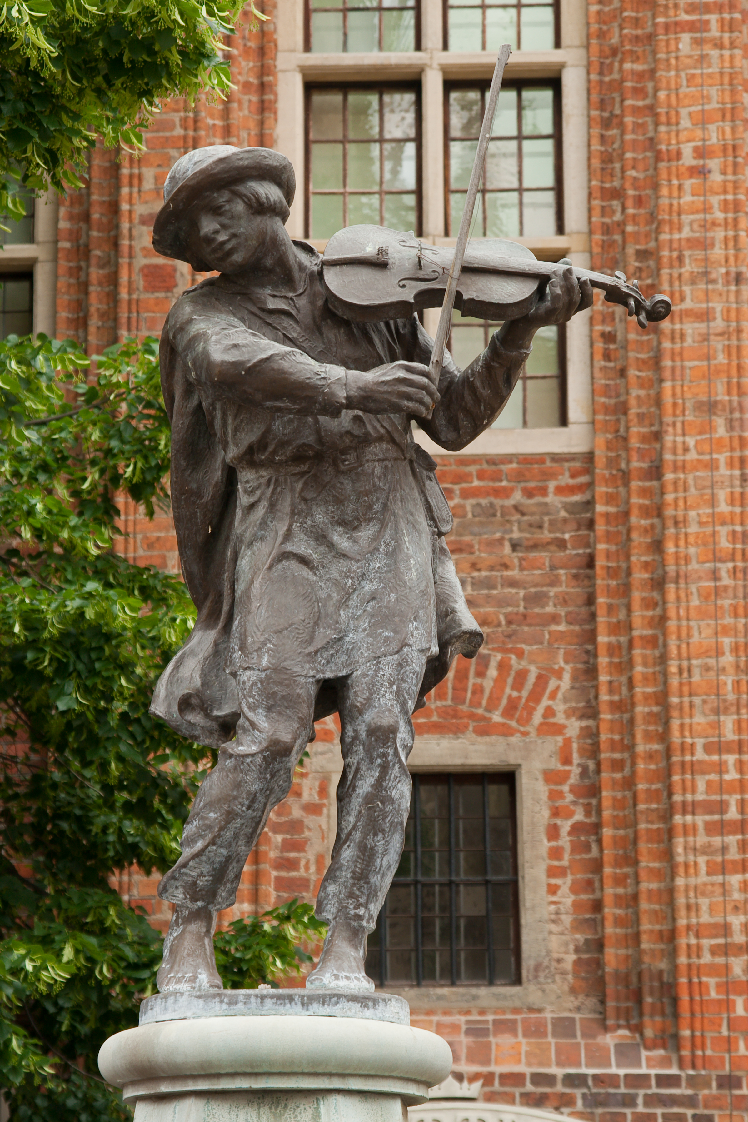 Monument of the Raftsman (Flisak) on the Old Town Market in Toruń (Poland).